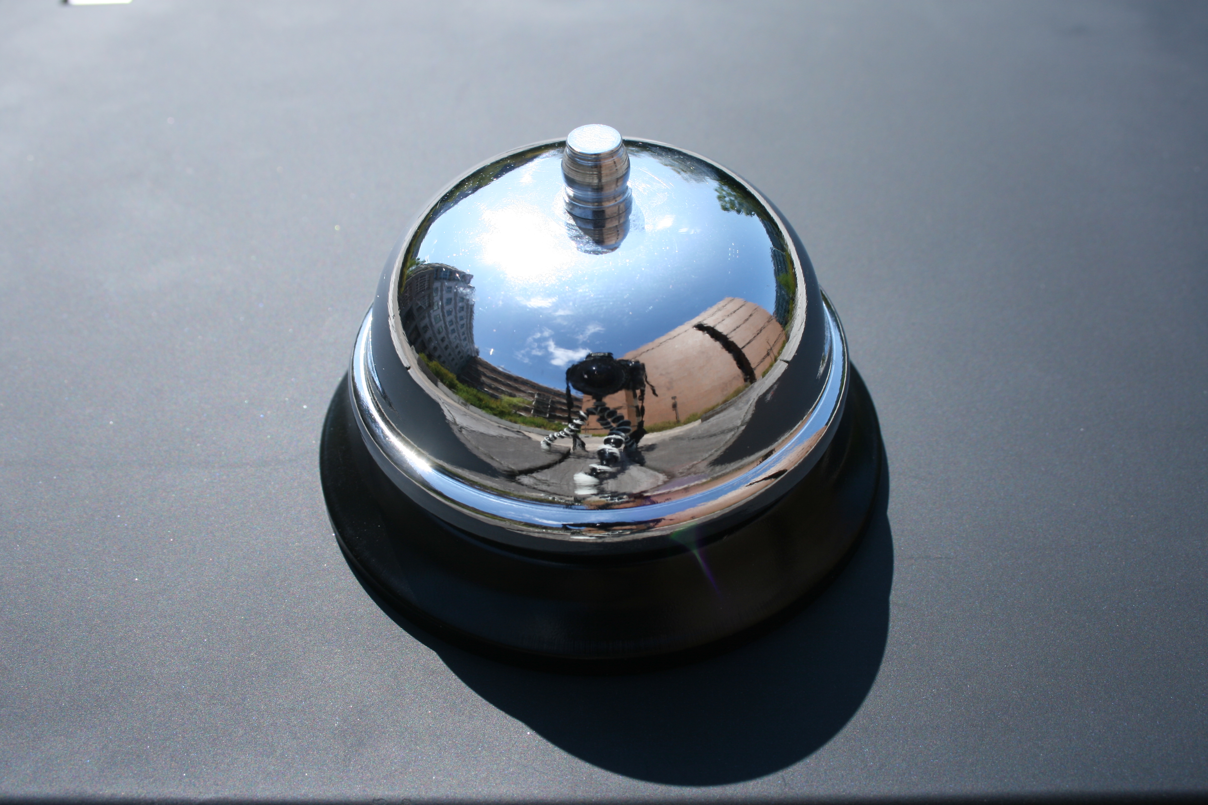 This one is actually broken--it's missing the arm underneath that strikes the bell. Rebel XTi + kit lens + Gorillapod knockoff + ThinkPad R61